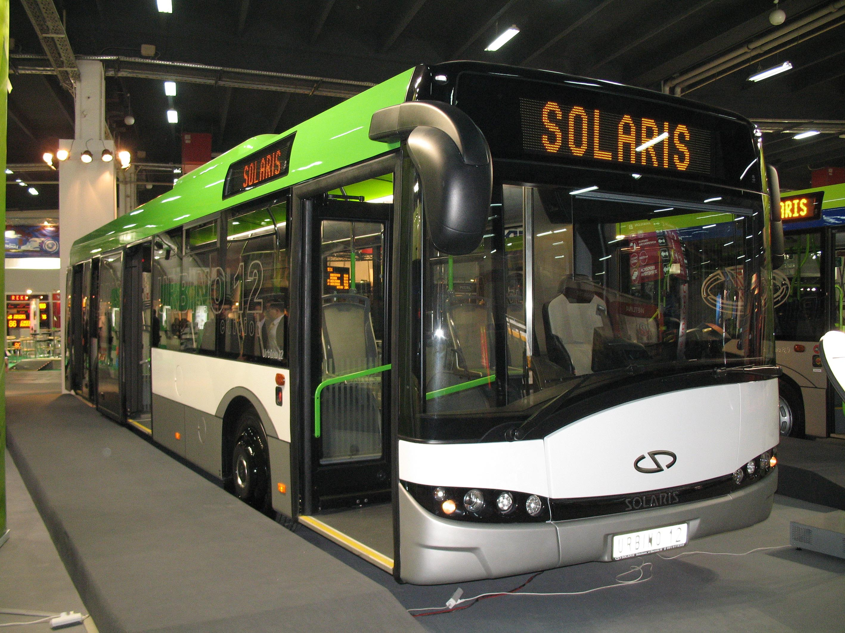 Solaris Urbino 12 New Edition Mk3,5 (body Mk3, inside vision Mk4) city bus in Kielce, Poland. Transexpo 2008 exhibition.